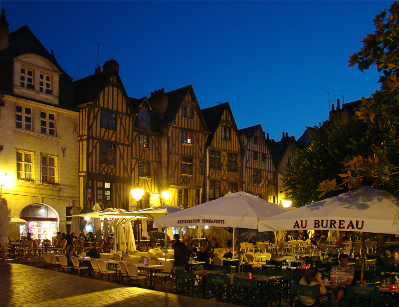 Plumereau Square, Tours, Indre-et-Loire, Centre, France.